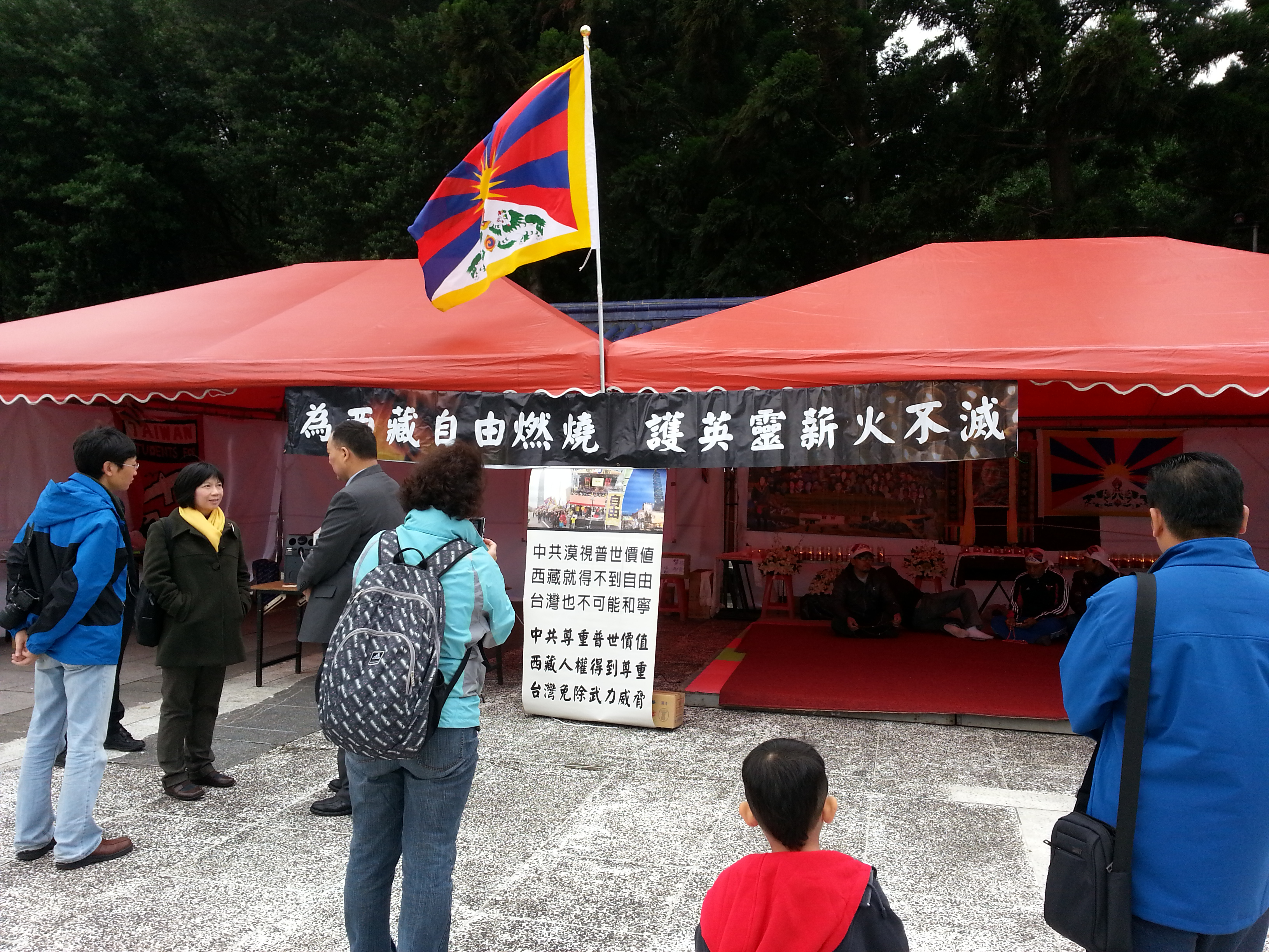 Taiwan is a Democratic Country